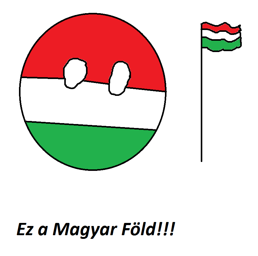 HungaryBall in the Polandball comic series.I create it with the Paint program.